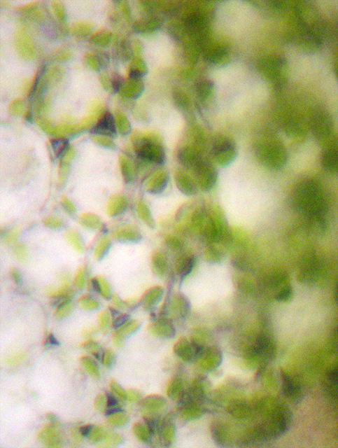 Palisade mesophyll cells (cross section) with chloroplasts, through the microscope